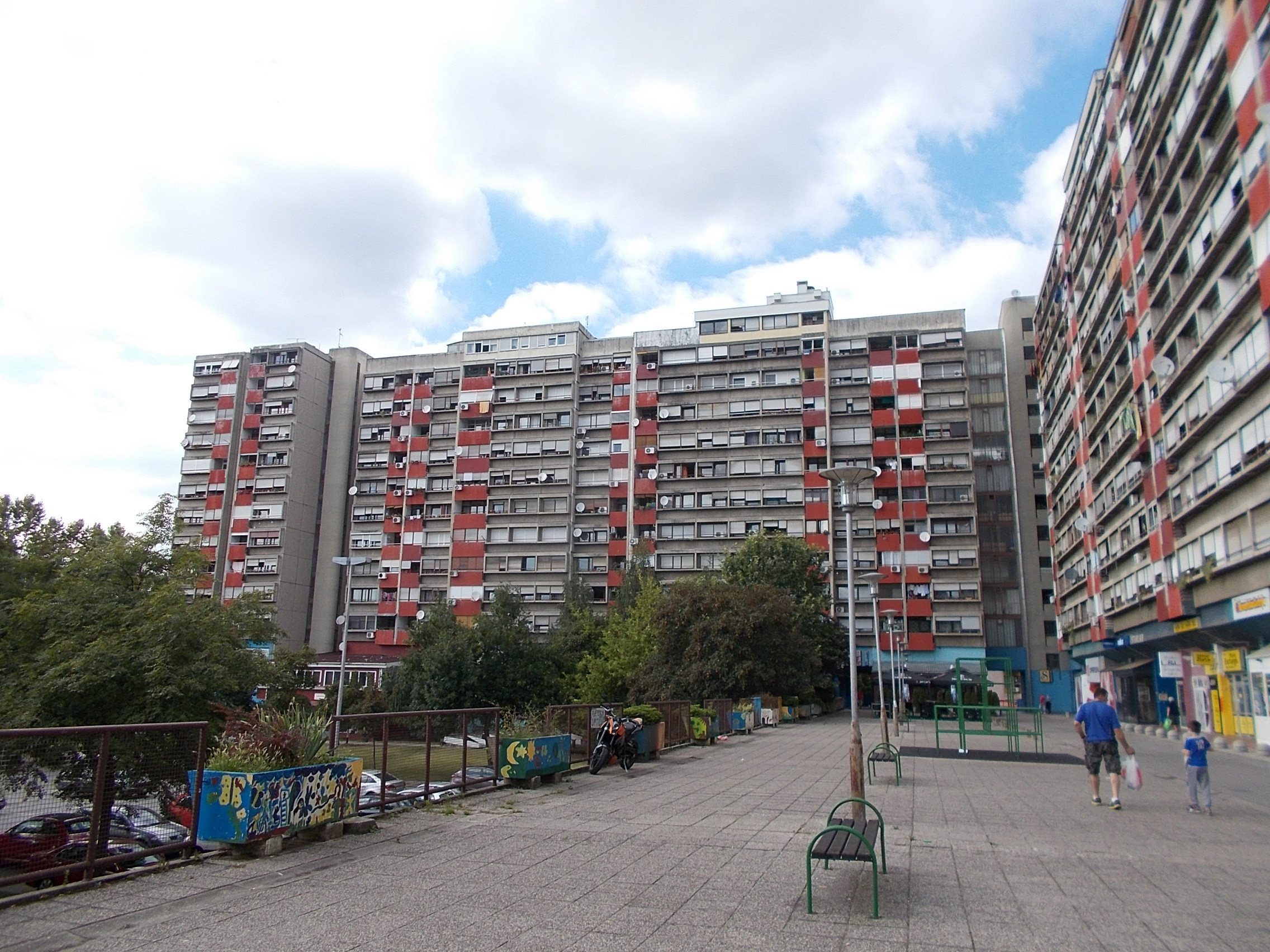 Residental building in Ljerka Šram Street.